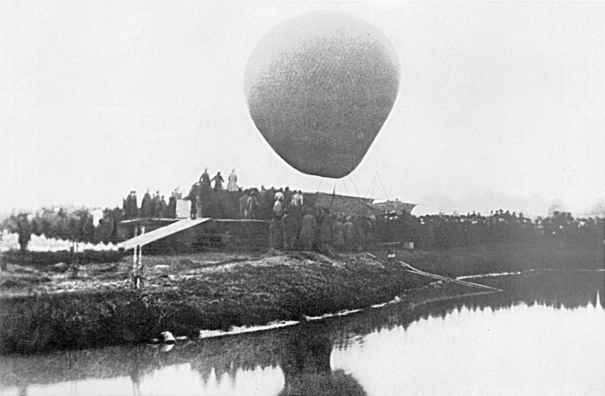 Mendeleev’s flying on aerostat. 1887